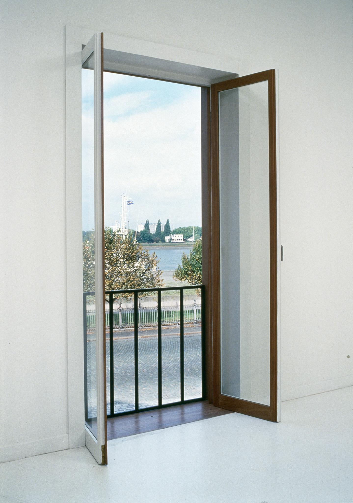 Maria Eichhorn - installation view: On taking a normal situation and translating it into overlapping and multiple readings of conditions past and present, MuHKA, Antwerp (1993)